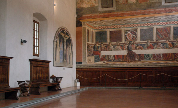 Sant’Apollonia cenacolo. Florence